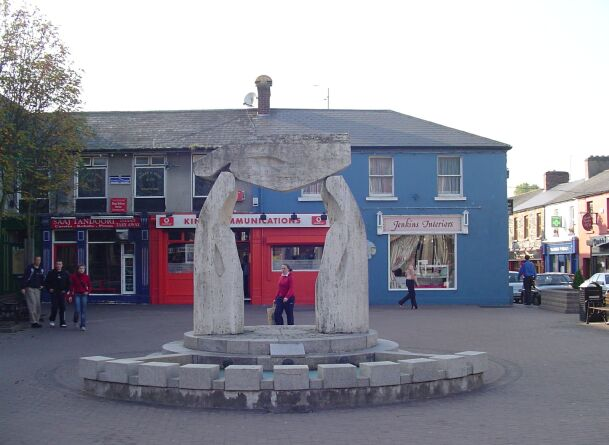 Cavan, Ireland, main square with artwork